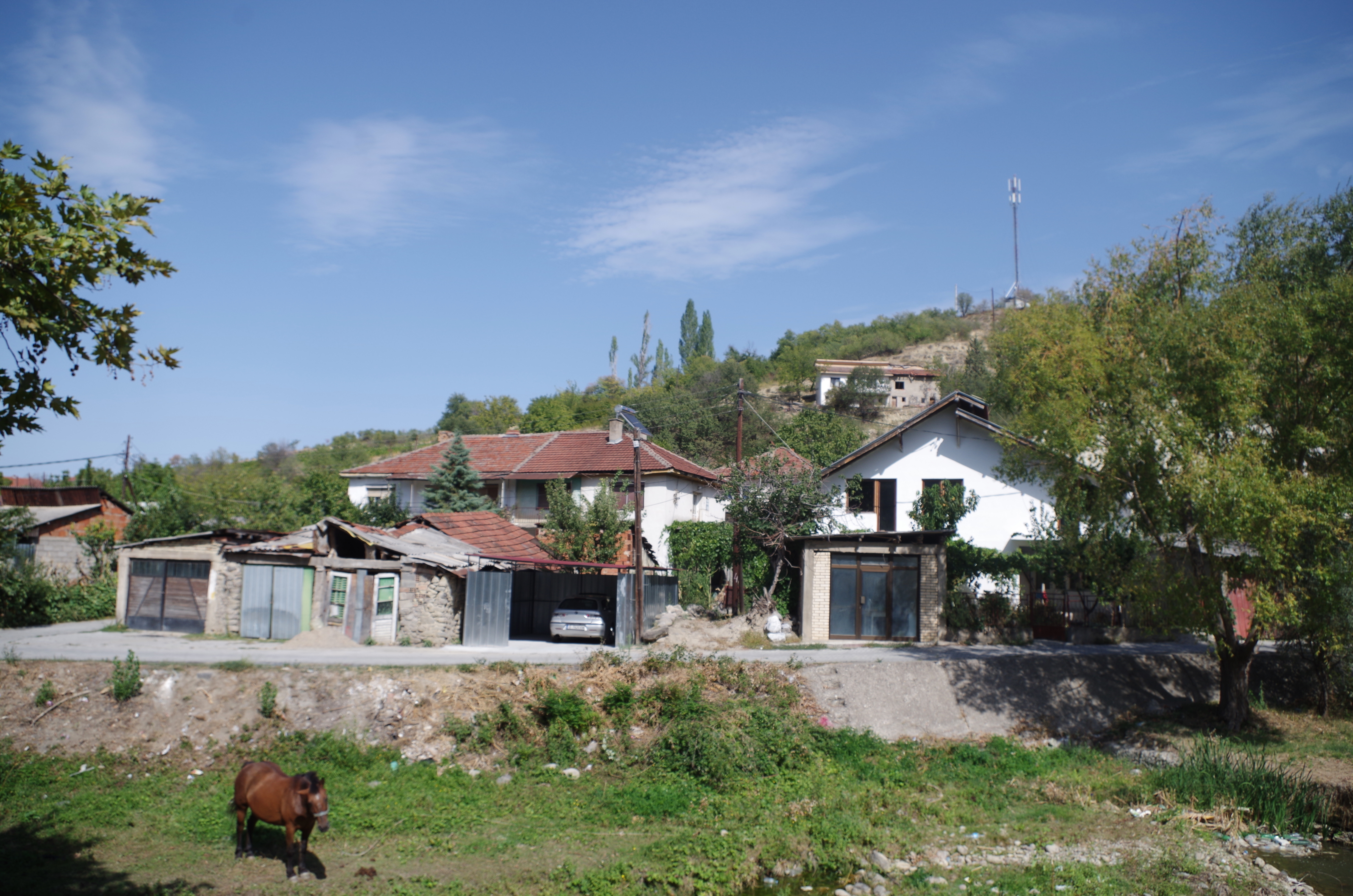 Houses in the village of Vataša